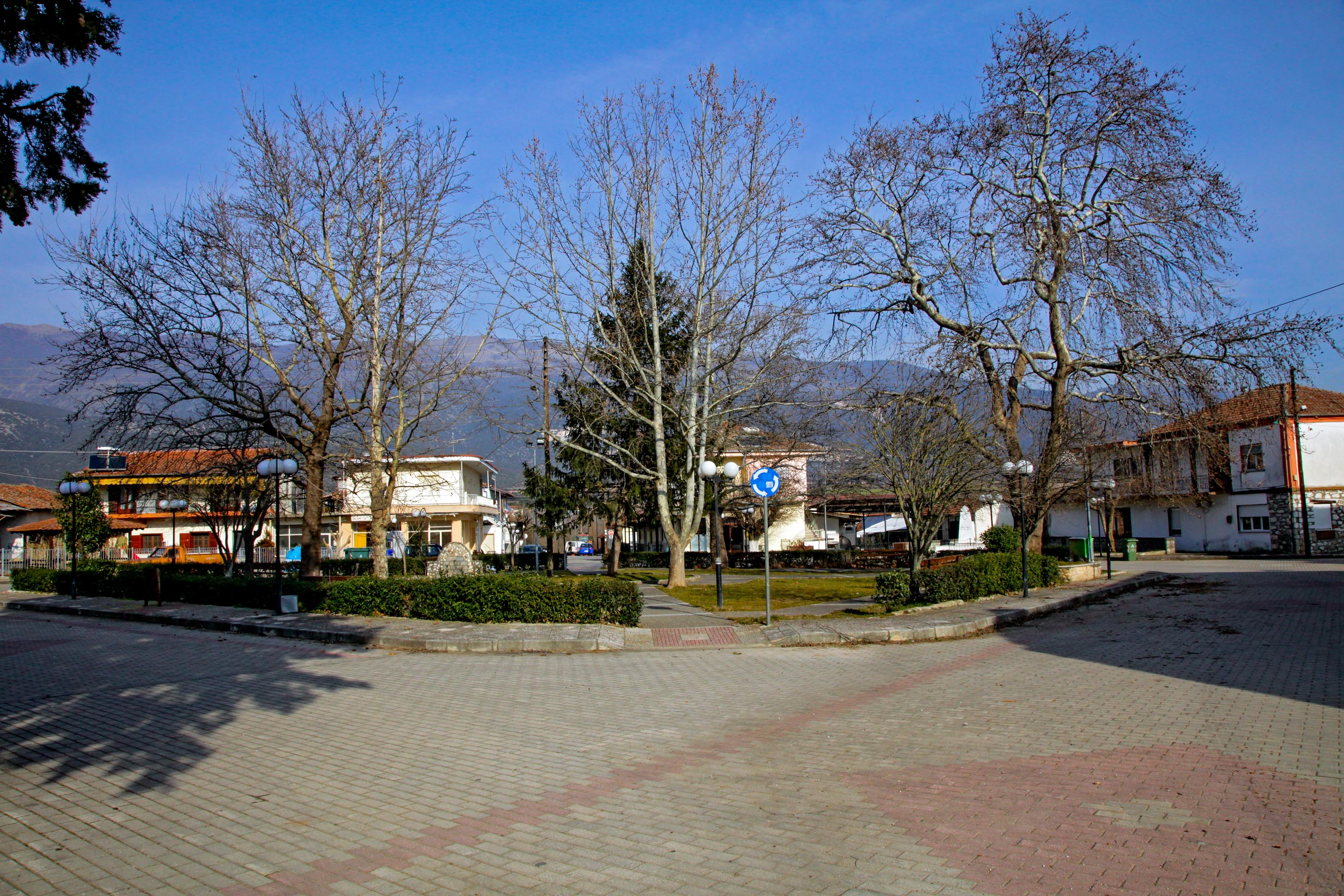 The main square of the village of Grammeni, Drama, Greece